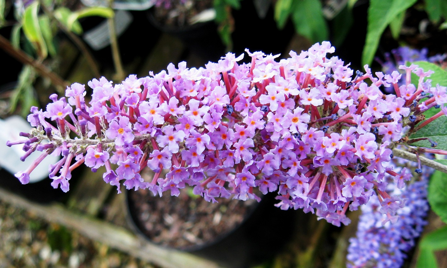 Photo taken at the Longstock Park Nursery, UK, NCCPG national buddleja collection holder, August 2012